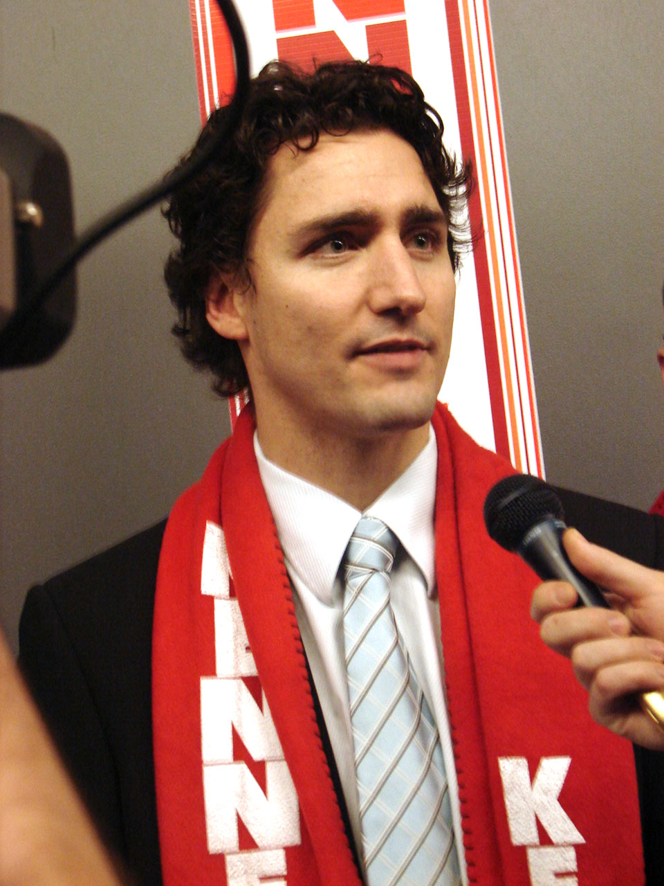 Justin Trudeau at the 2006 Liberal leadership convention.